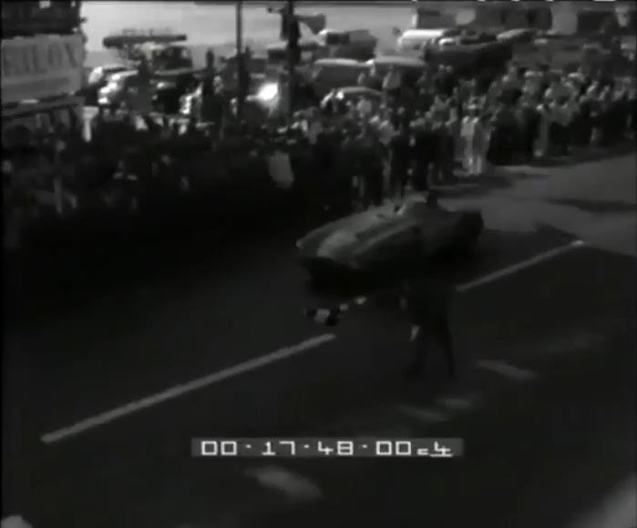 The arrive of the 1954 Messina Grand Prix winner Roberto Sgorbati in OSCA 2000 s/n 2005S.[1]